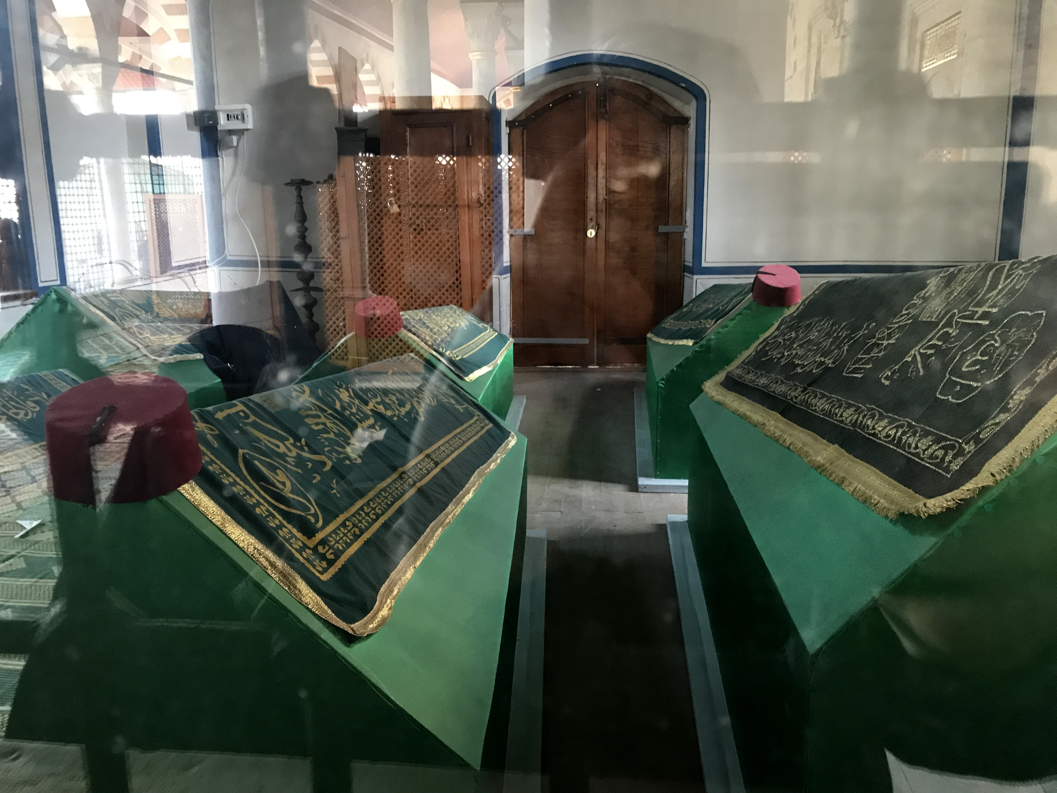 Mihrimah Sultan Mosque (built 1548), is an Ottoman mosque located in the historic center of the Üsküdar municipality in Istanbul, Turkey. It is the first of two mosques built by Mihrimah Sultan, daughter of Sultan Suleiman the Magnificent and wife of Grand Vizier Rüstem Pasha. It was designed by Mimar Sinan and built between 1546 and 1548.